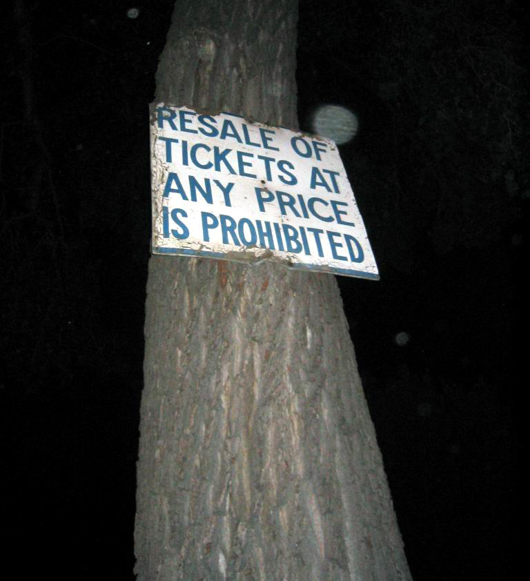 A sign prohibiting whitesox tickets resales ("scalping")